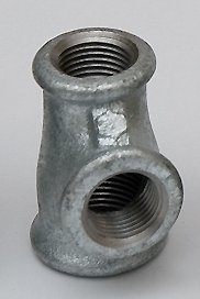 Junction made from black malleable cast iron, surface hot-dip galvanized